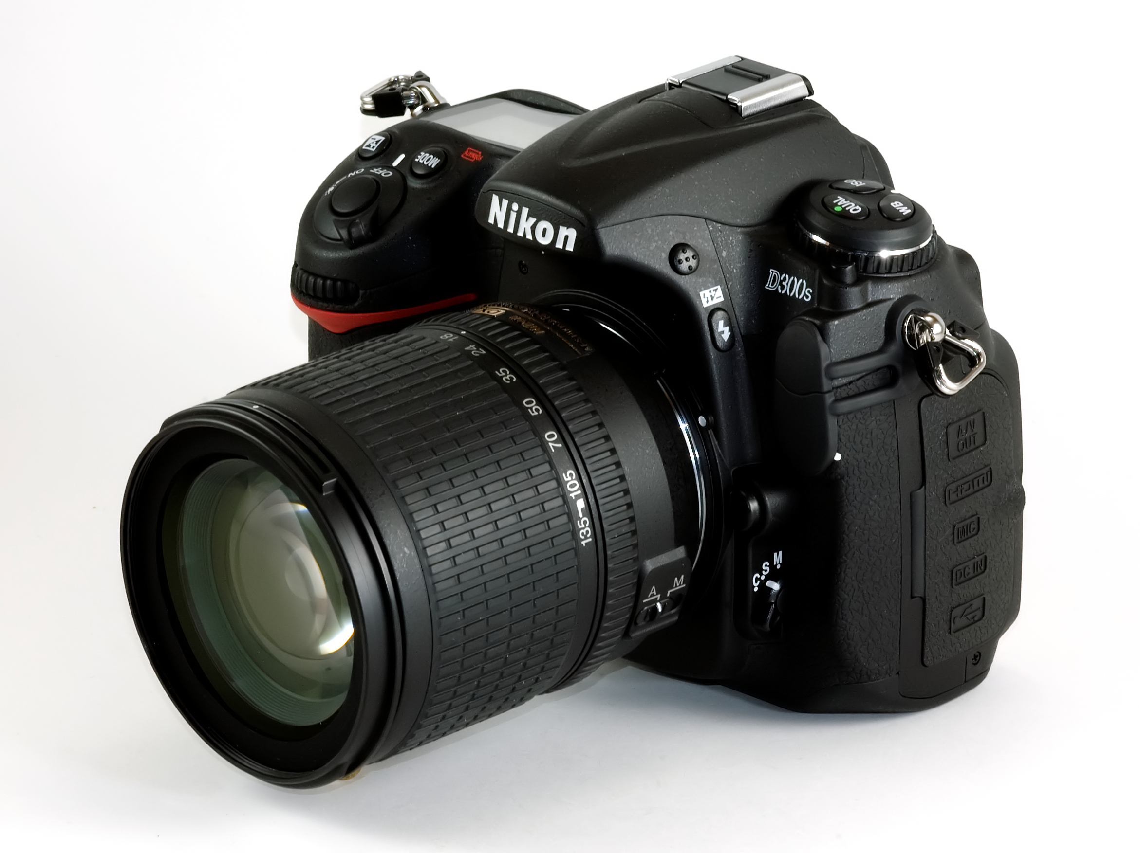 A Nikon D300s with Zoom-Nikkor 18-135mm lens.